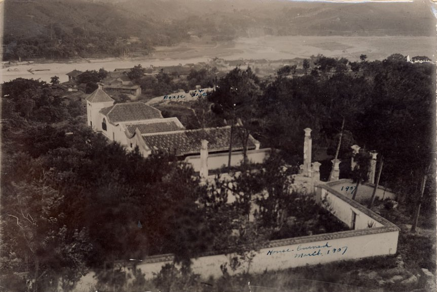 A missionary compound at Ing-tai County (Yongtai) of Fuzhou, Fujian Province of China, in 1907. The typical Foochow style gable wall was integrated into this western style building.